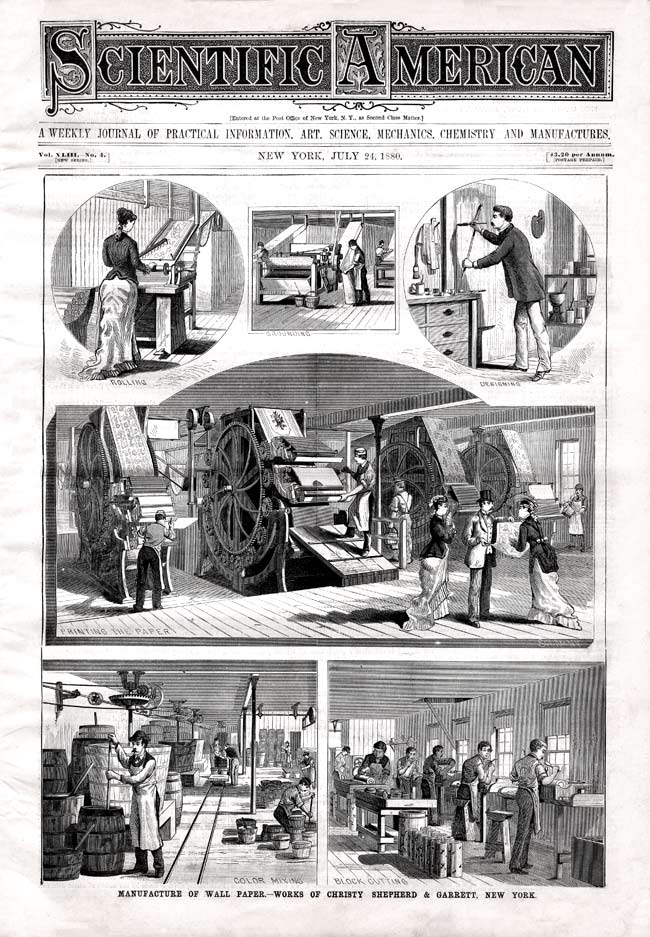 Cover of the Scientific American, issue of 24th July 1880; shows the manufacture of wallpapers at the New York factory Christie, Shepherd & Garrett, formerly known as Christie and Constant